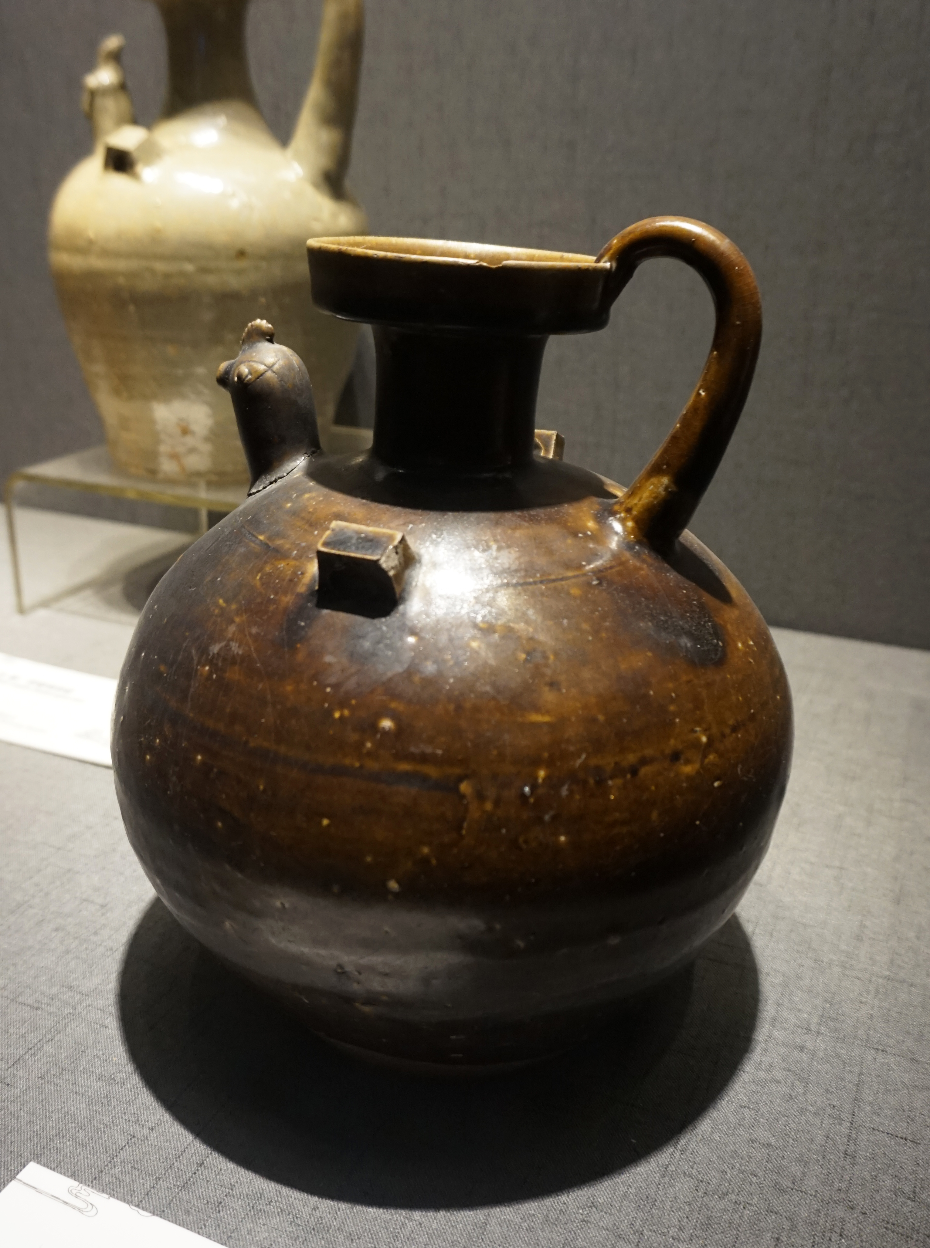 Chicken-head-spout ewer. Eastern Jin Dynasty.